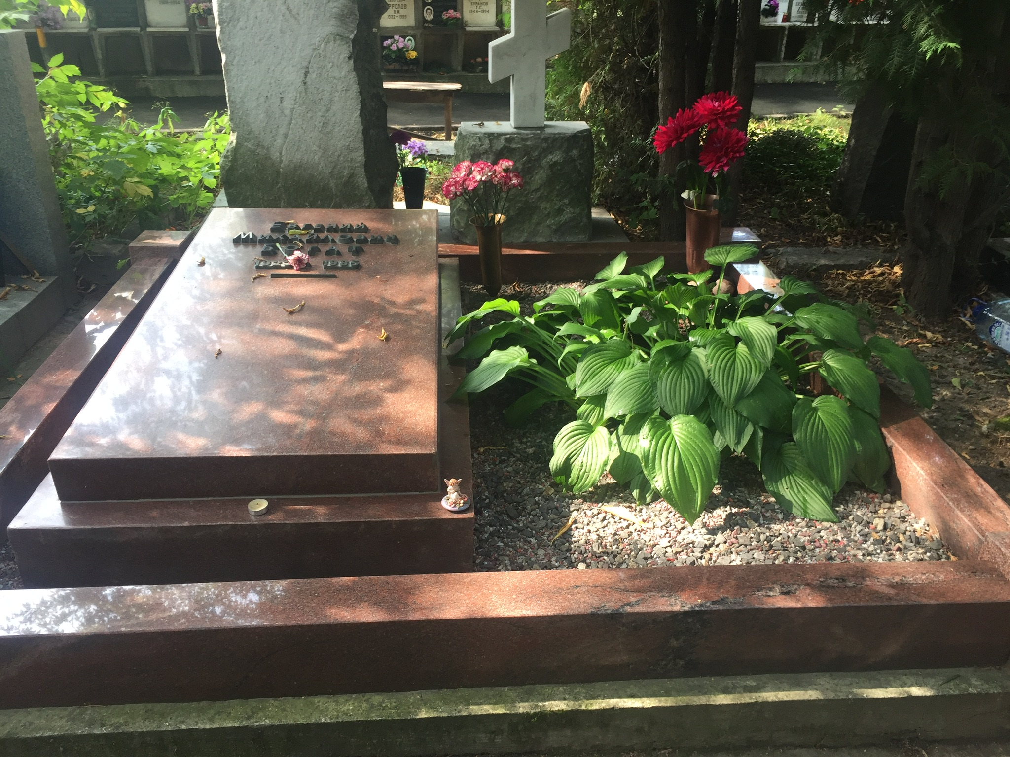 Tombstone of E. Bogat